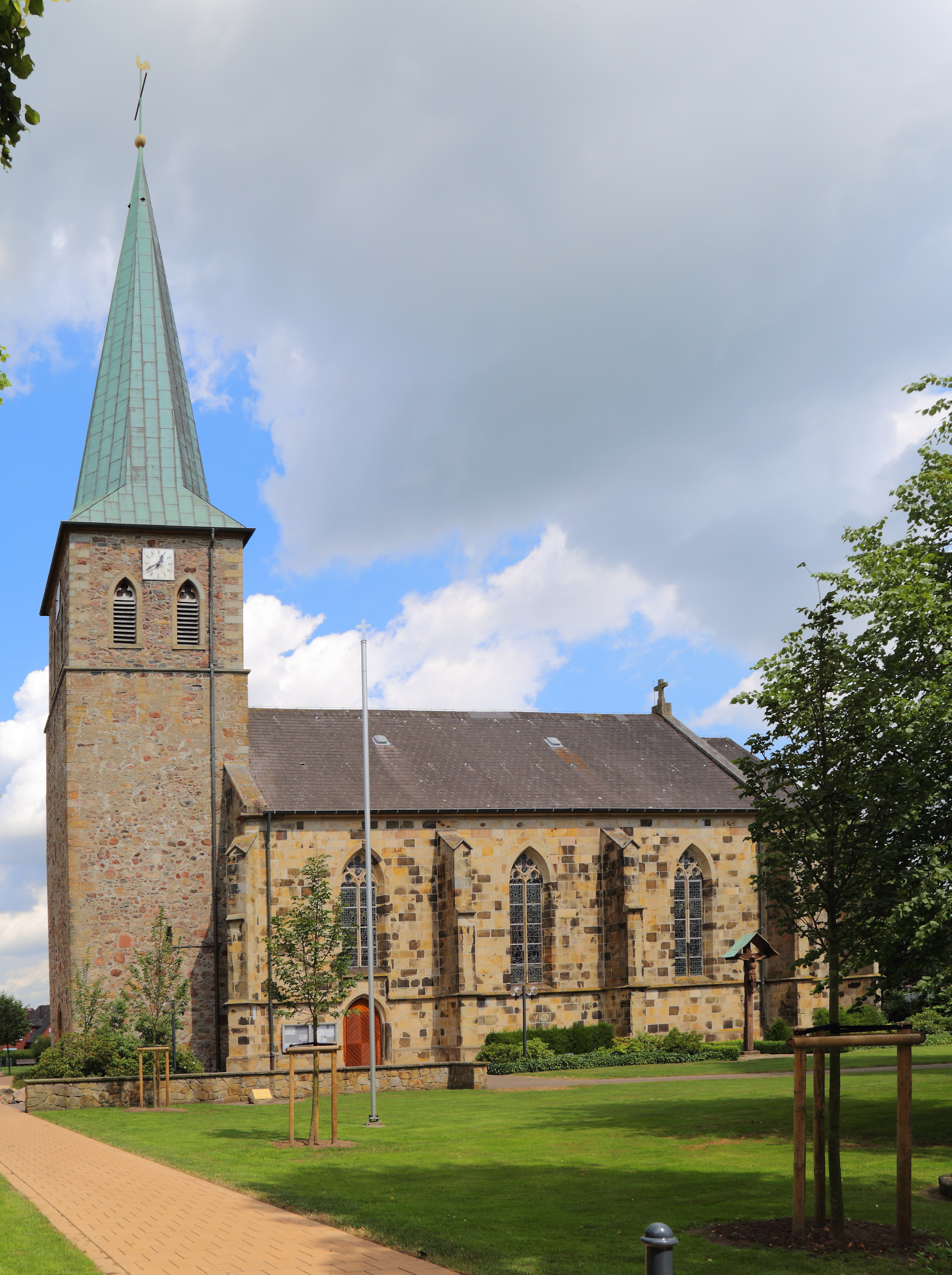 Roman Catholic St. Antonius Parish Church (Pfarrkirche St. Antonius) in Baccum, a city district of Lingen (Ems), Landkreis Emsland, Lower Saxony, Germany.